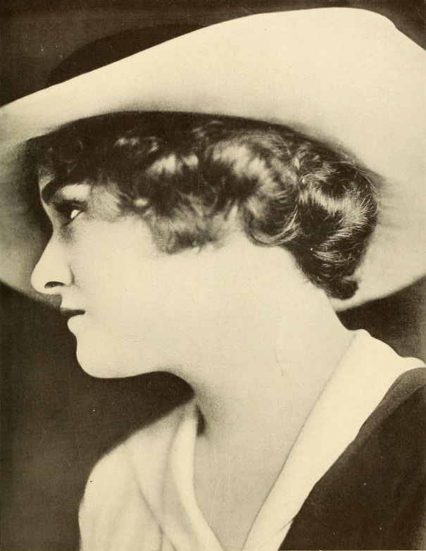 Photograph of Gladys Brockwell published in The Photo-Play Journal, April 1917